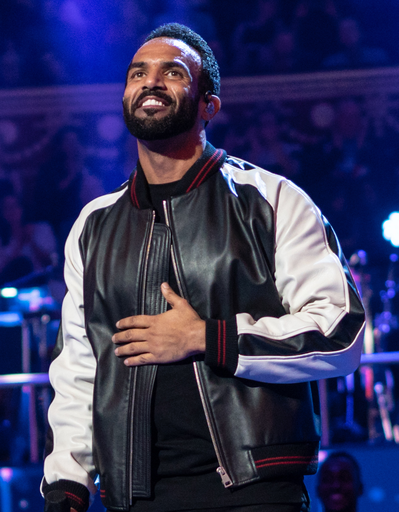 Craig David at The Queen's Birthday Party